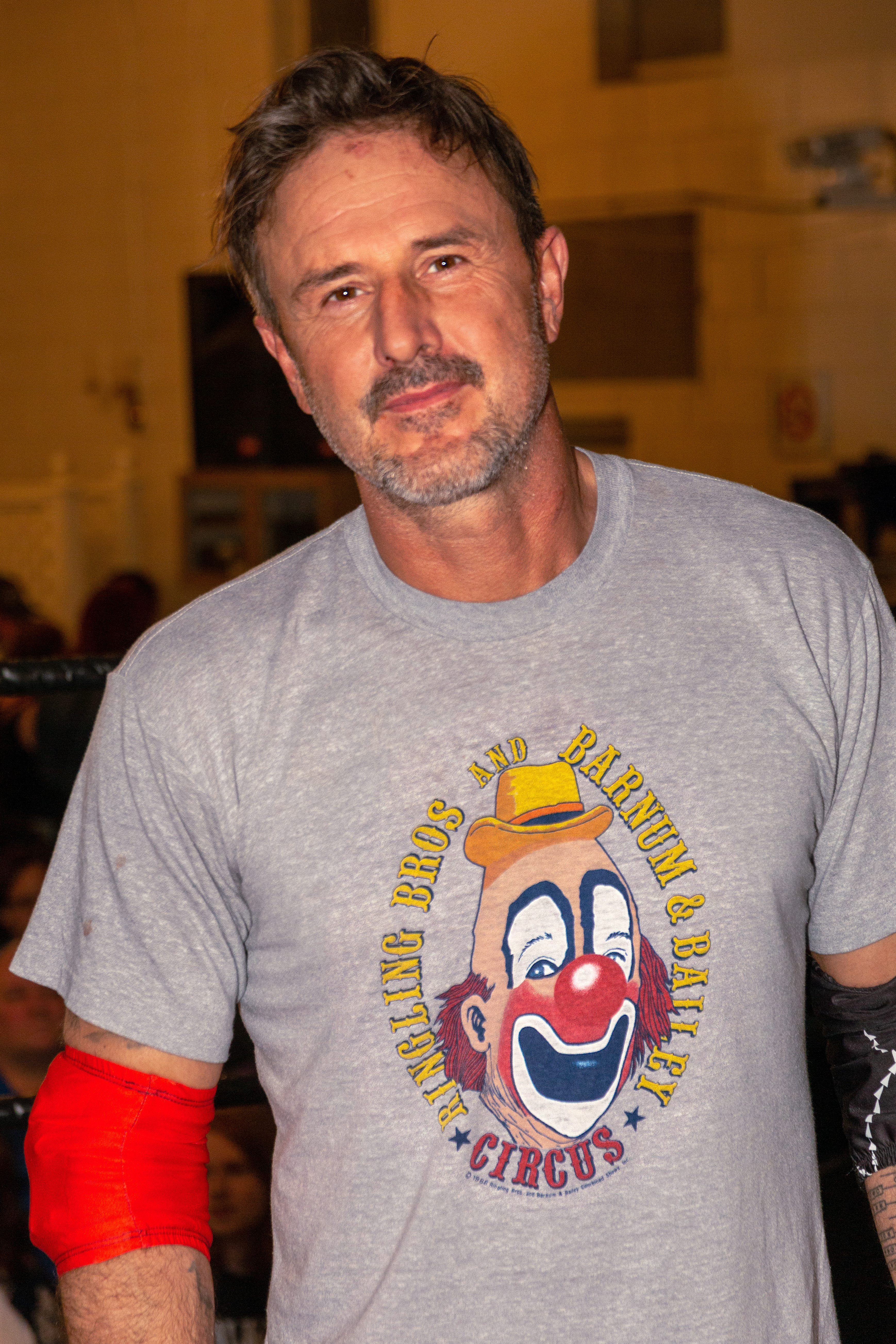 Actor/wrestler David Arquette posing preshow at Alpha-1's Immortal Kombat 7 show in Hamilton, ON